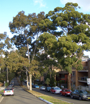 Allawah street, Sydney, Australia. I took the photo on 18th June 2006. J Bar 00:25, 25 July 2006 (UTC)